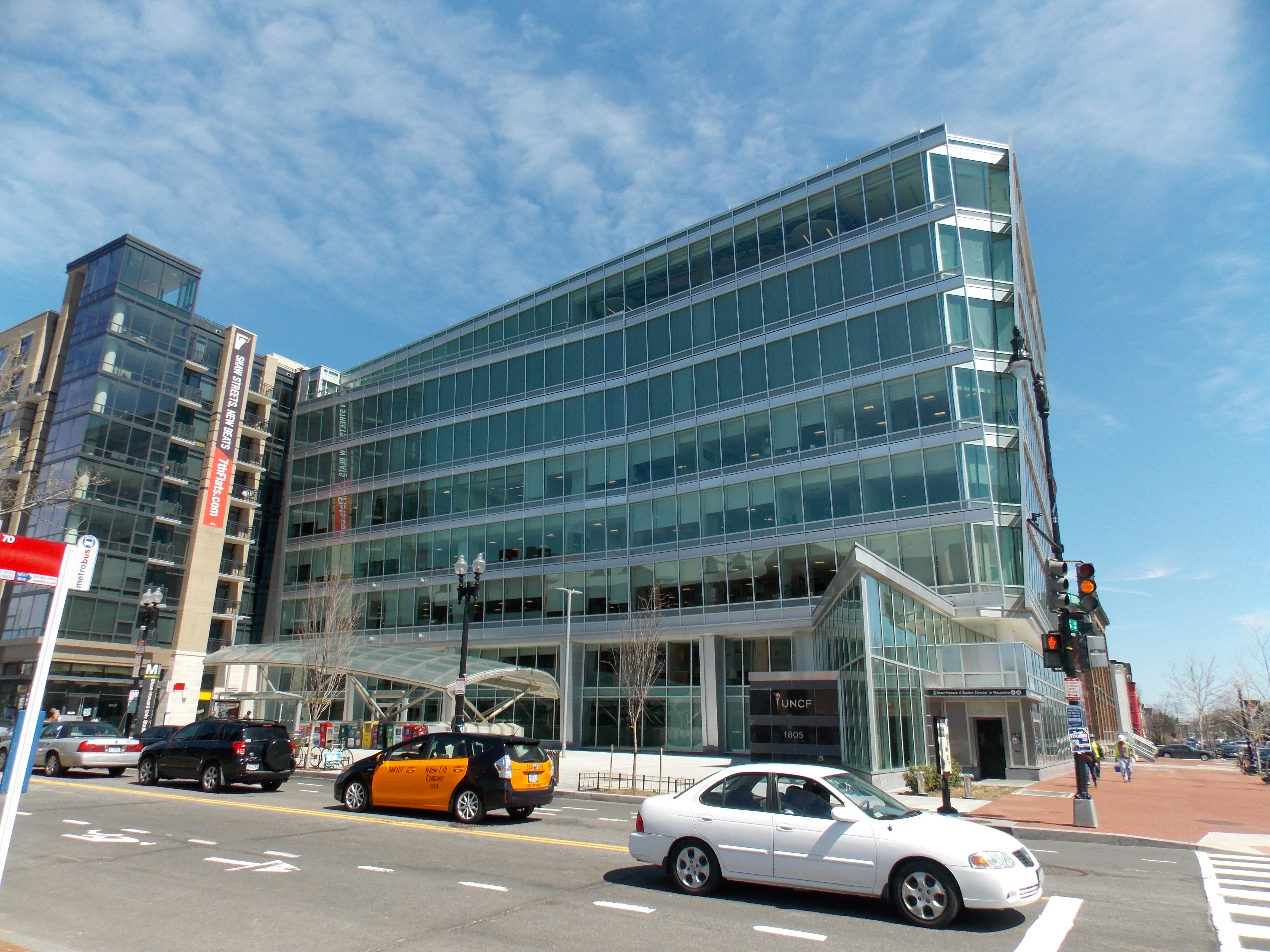 The headquarters of the United Negro College Fund on Seventh Street NW in Washington, D.C.